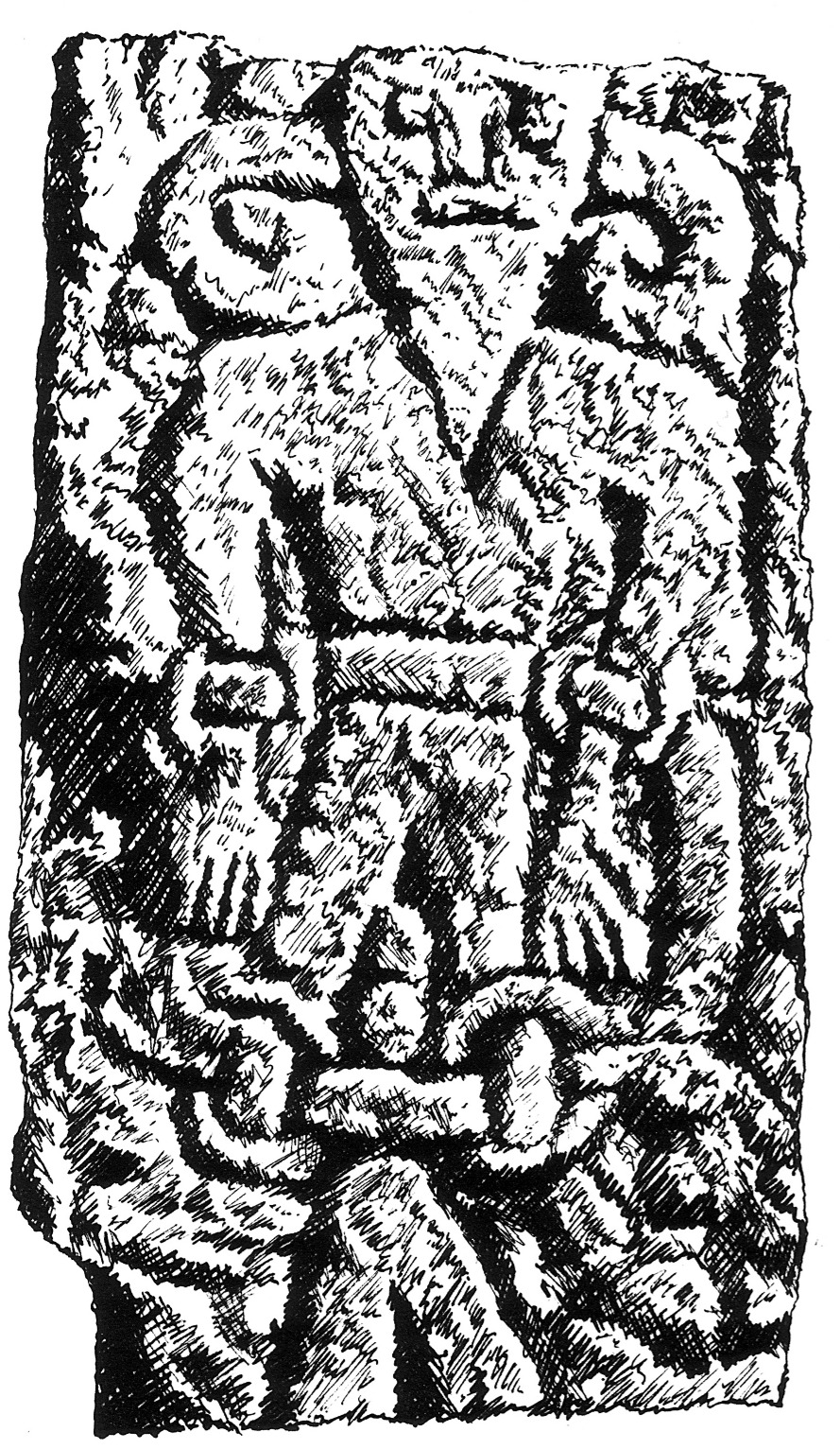 Sketch of the "Loki Stone" (about 1 metre high) in the parish church, Kirkby Stephen, Cumbria. It depicts a horned figure bound in chains.